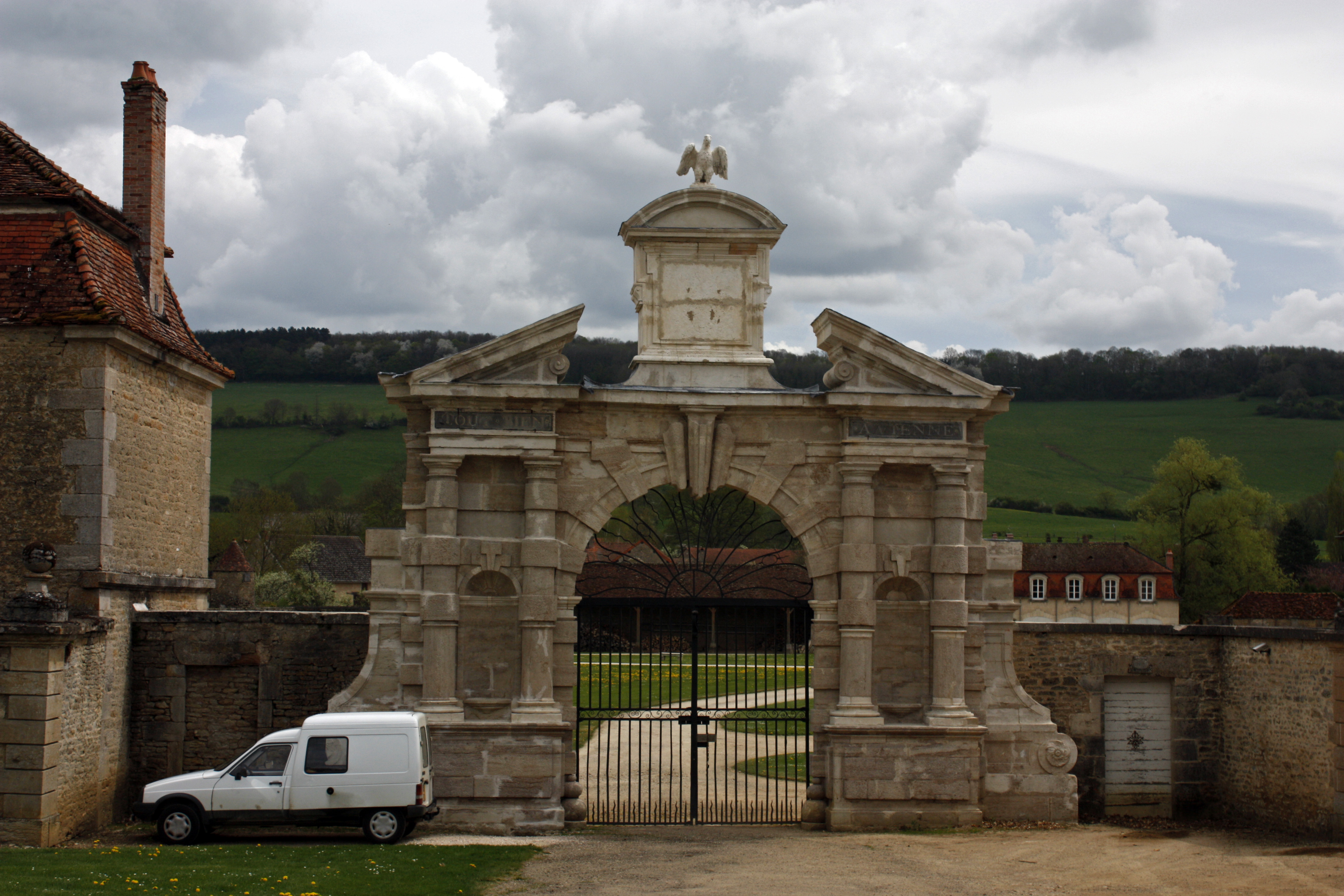 Built by Charles 1° de Vienne, from 1622 to 1623, with the large stable, the portal has been removed in the nineteenth century, from the location occupied by the lions in front of the bridge that gives access to the honor court. The metopes bear the motto: "TOUT BIEN AVIENNE" (goods things will happen) while at the top is the eagle that is found on the arms.